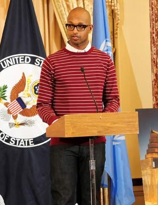 Grammy-nominated Ethiopian musician Kenna speaking at a U.S. Department of State reception honoring his Summit on the Summit initiative.